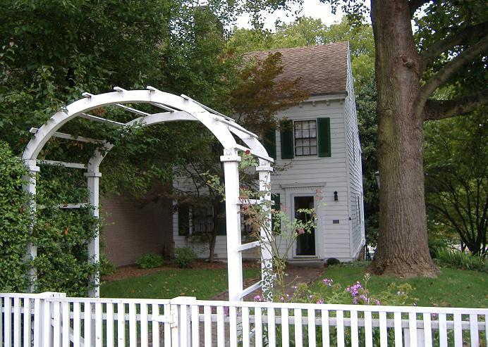 Front of the Scribner House, located at 106 E. Main Street in New Albany, Indiana, United States. Built in 1813, it is listed on the National Register of Historic Places, and it is part of a Register-listed historic district, the New Albany Downtown Historic District.